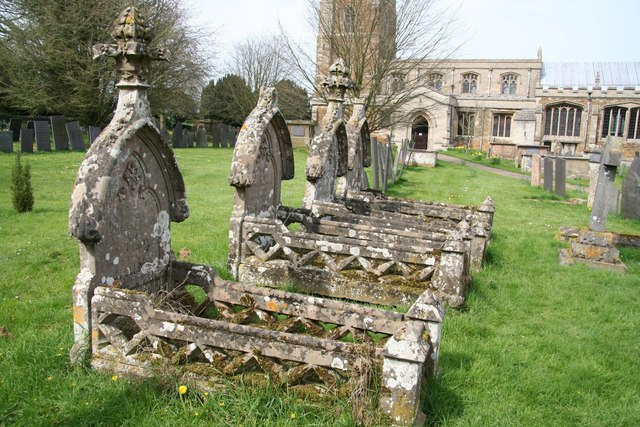 Nicholls Graves. Unusual graves for several members of the Nicholls family who died in the 19th century.